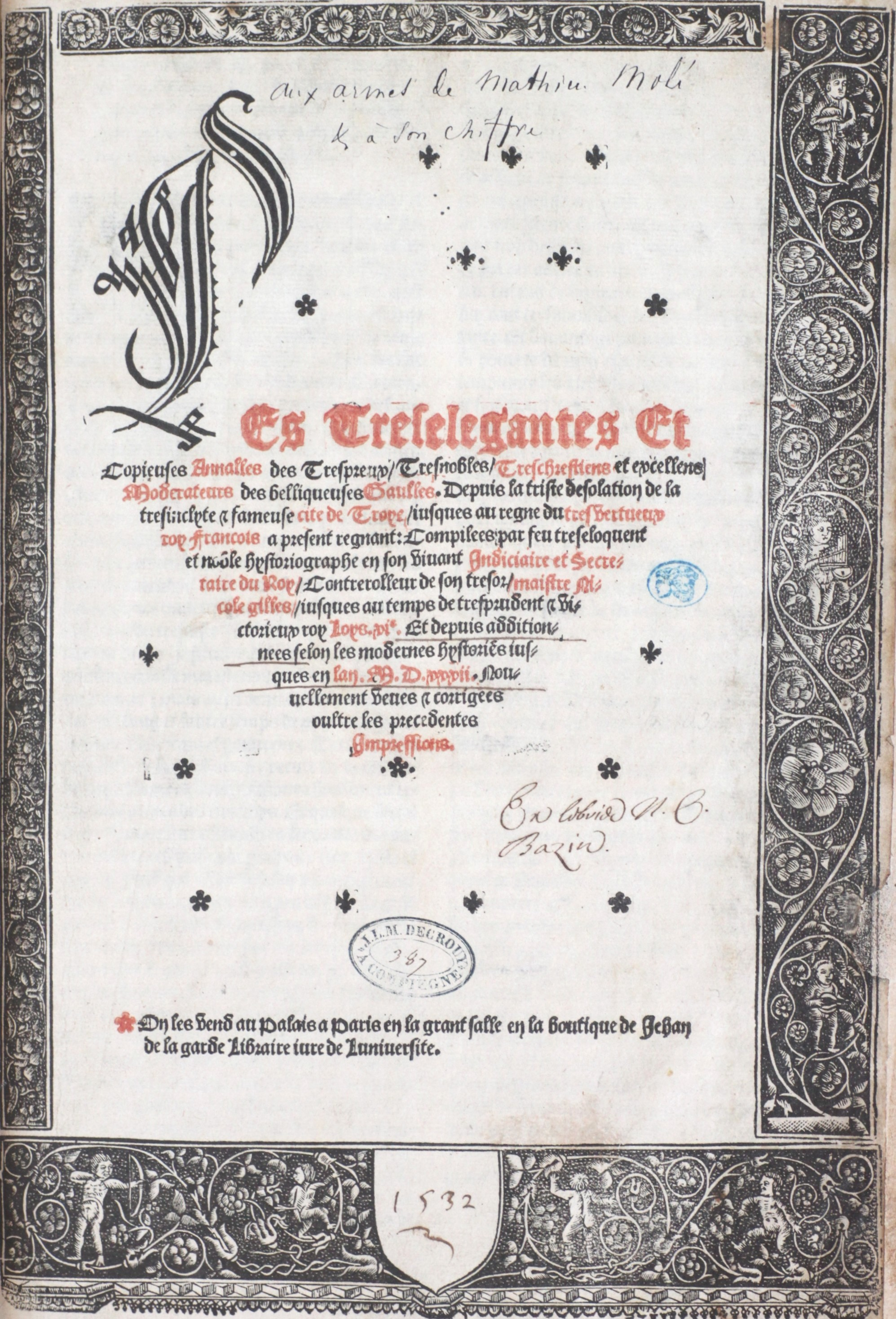 Nicole Gilles: Très élégantes et copieuses Annales